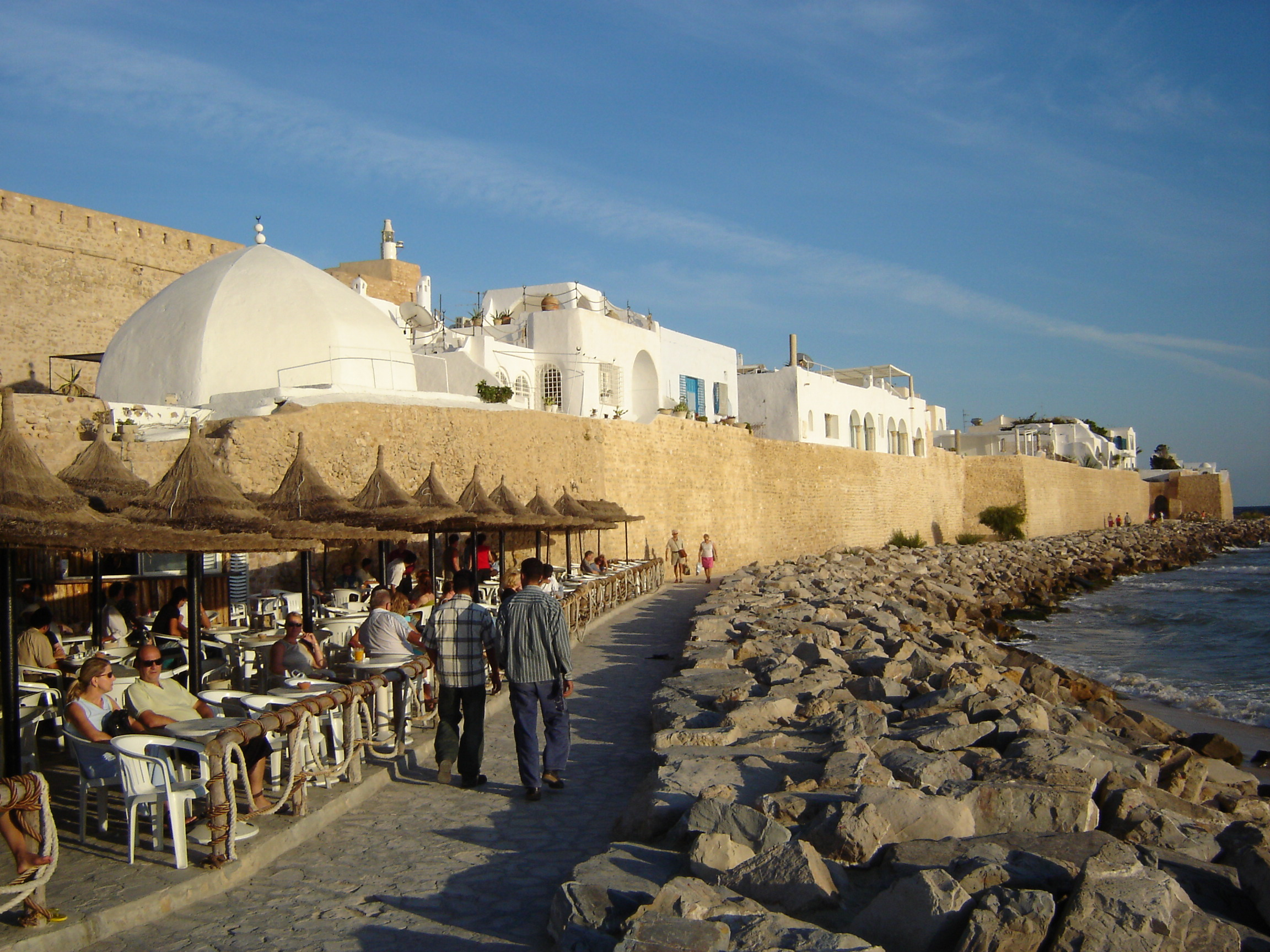 Medina of Hammamet, Tunisia Source: Self-made, October 2004 Author: BishkekRocks